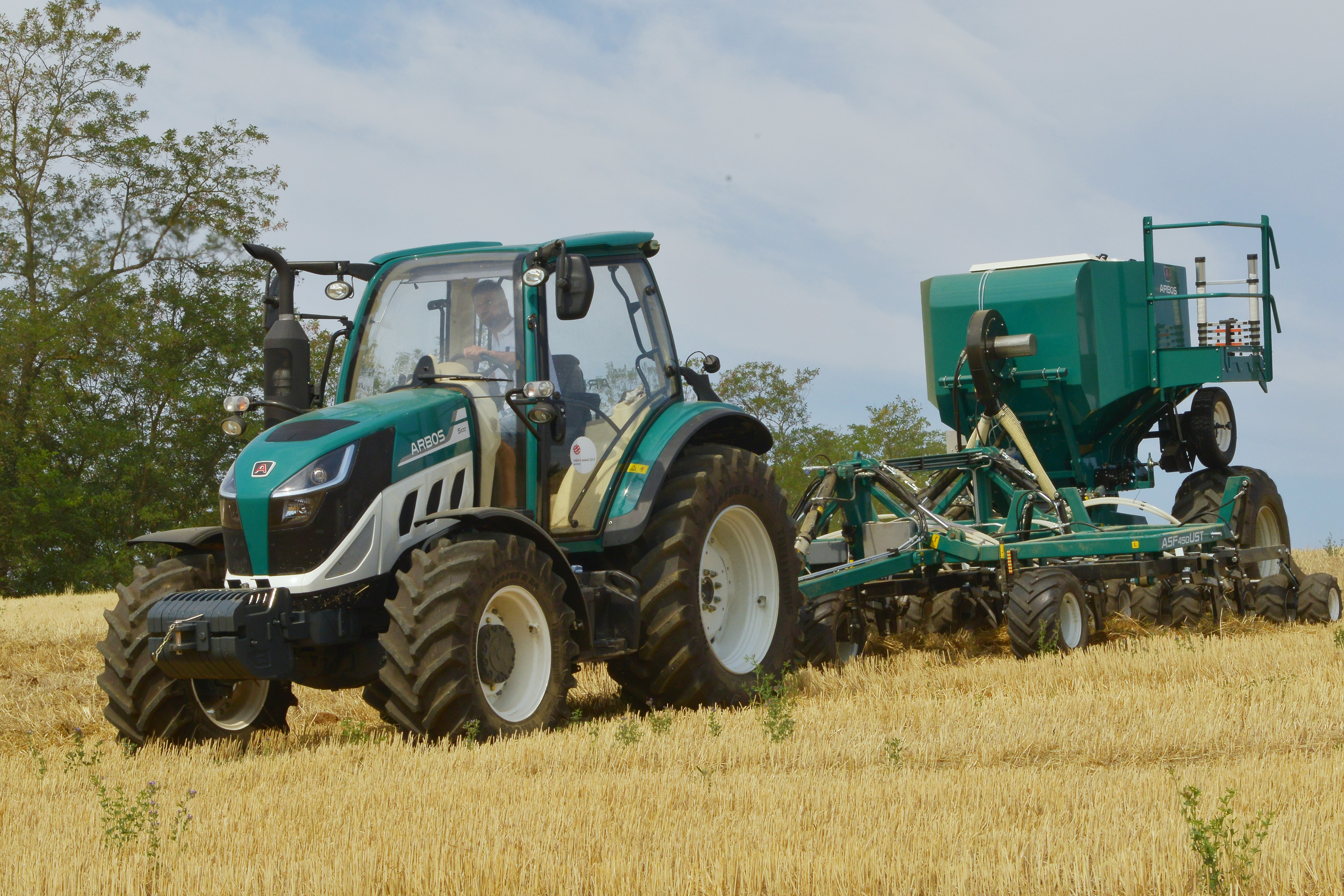 ARBOS 5100 with precision seeder